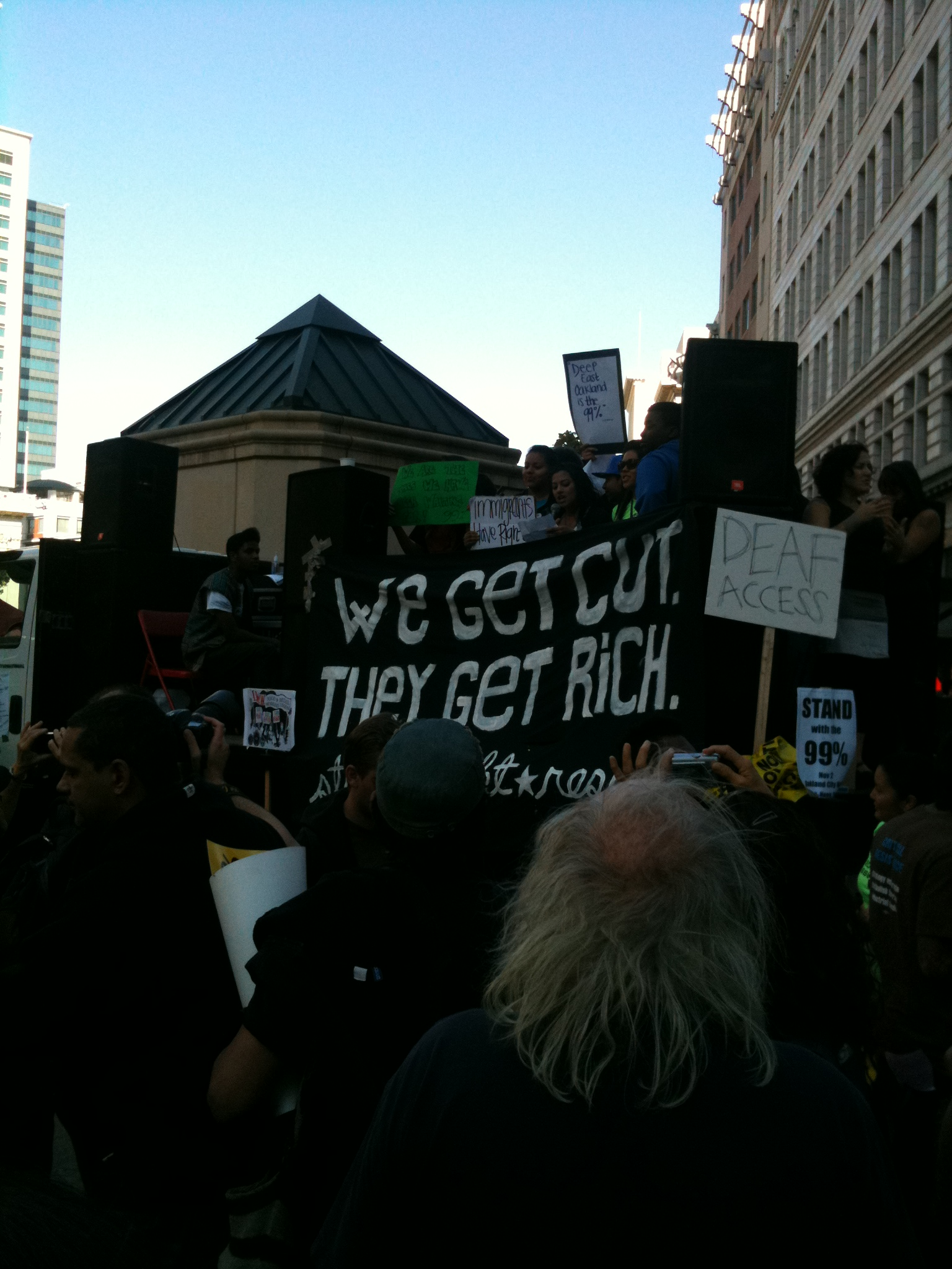 "We get cut, they get rich" banner in front of the flatbed truck make-shift speaking stage. Nov. 2